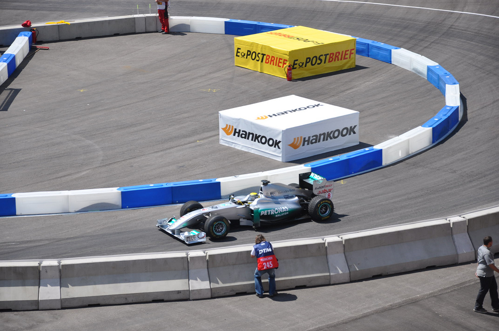 Rosberg in Munchen Olimpic Stadium on Brawn GP 2009 car with Mercedes GP colors